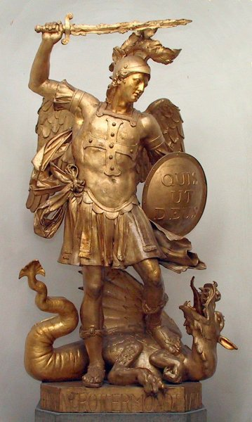 St Michael the archangel, dressed somewhat like a Roman soldier, about to slay the devil (in the form of a dragon) with a fiery sword. He has a shield with the Latin phrase QUIS UT DEUS? "Who is like unto God?", which is a literal translation of the Hebrew name Mi-Ka-'El מי־כאל .